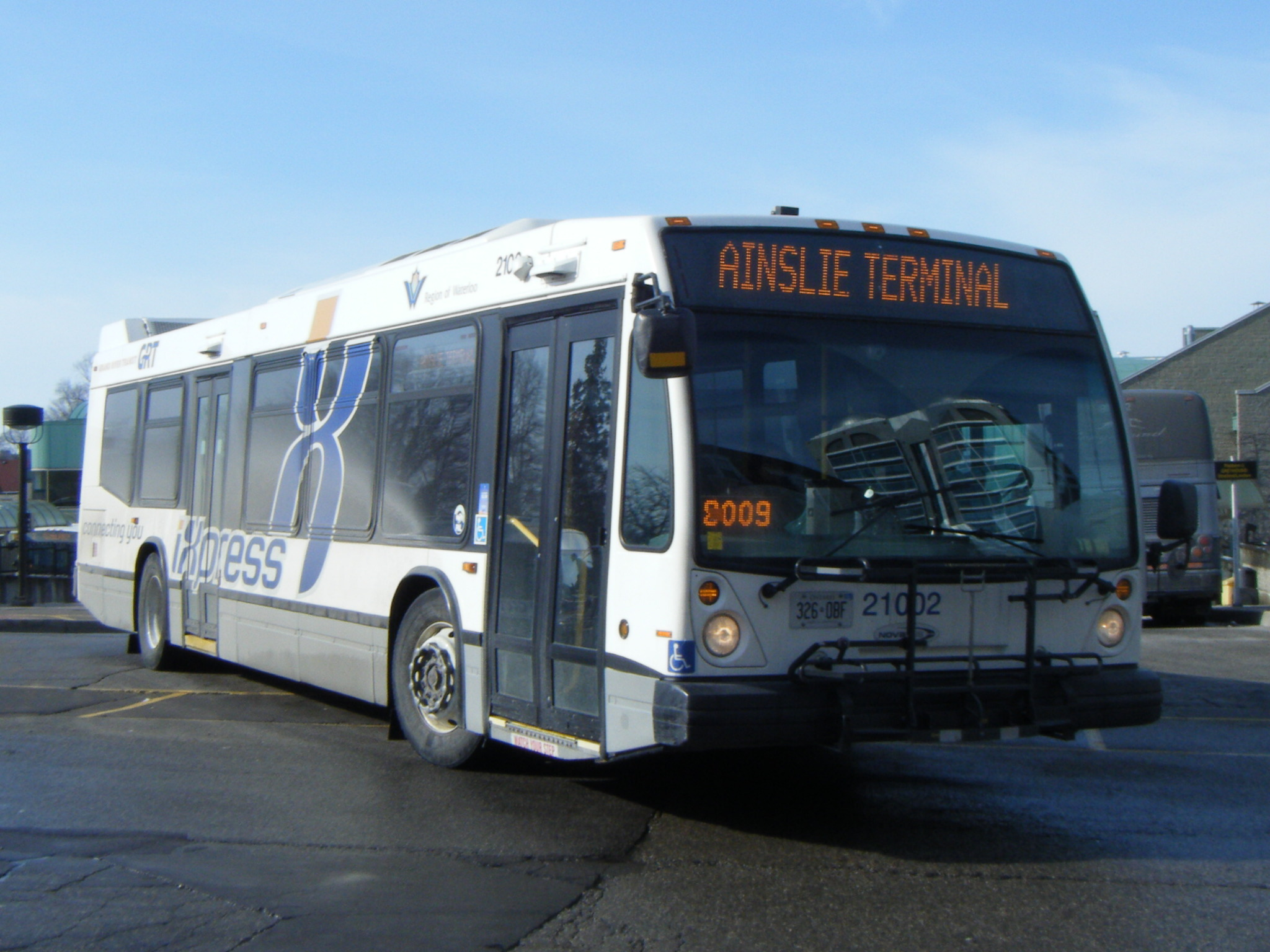 Grand River Transit 21002 seen leaving Charles Street Terminal